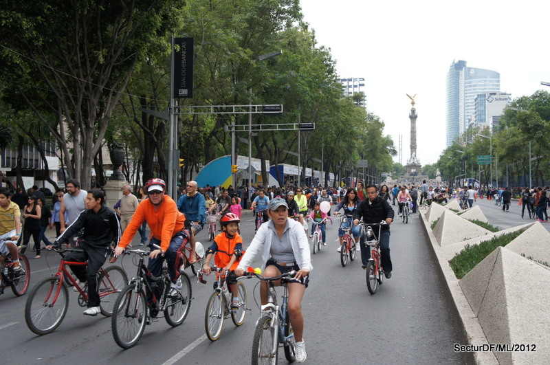 Images donated by Secretaría de Turismo del Gobierno de la Ciudad de México.